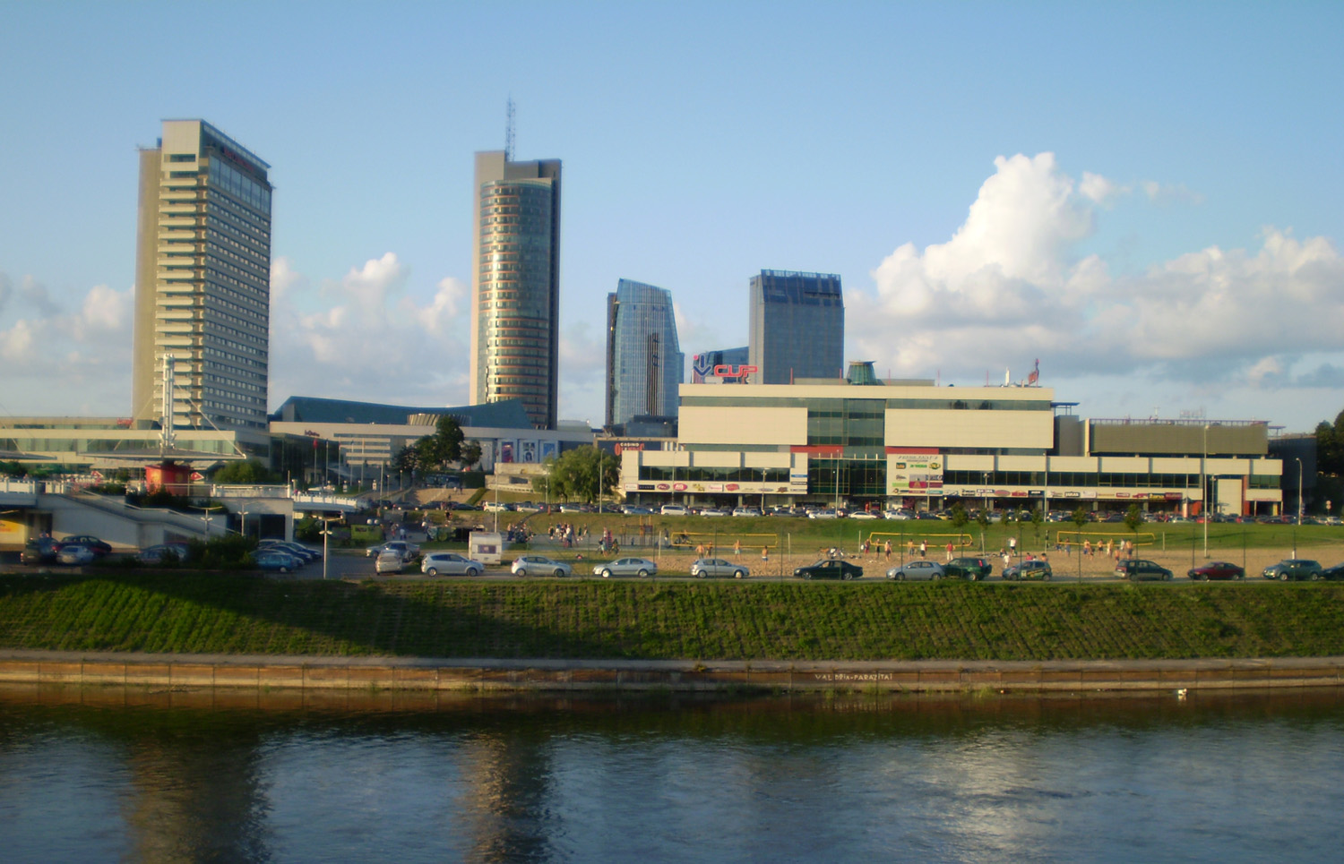 Skyscraper in Vilnius, Lithuania. View from southern side of Neris River.